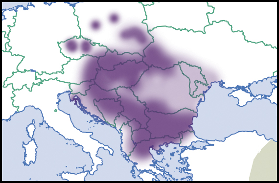 Oxychilus inopinatus (Uličný, 1887). Distribution in Europe, scientific state of knowledge of 2012. Source description in English. Light colour indicated rare occurrences or regions where the species could eventually be expected to occur. Dark colour indicated relatively reliable occurrences, as well as regions where the species was expected to occur, and where the species was not known to be extremely rare. Dark colour indications were not necessarily based on published records. Species summary in AnimalBase